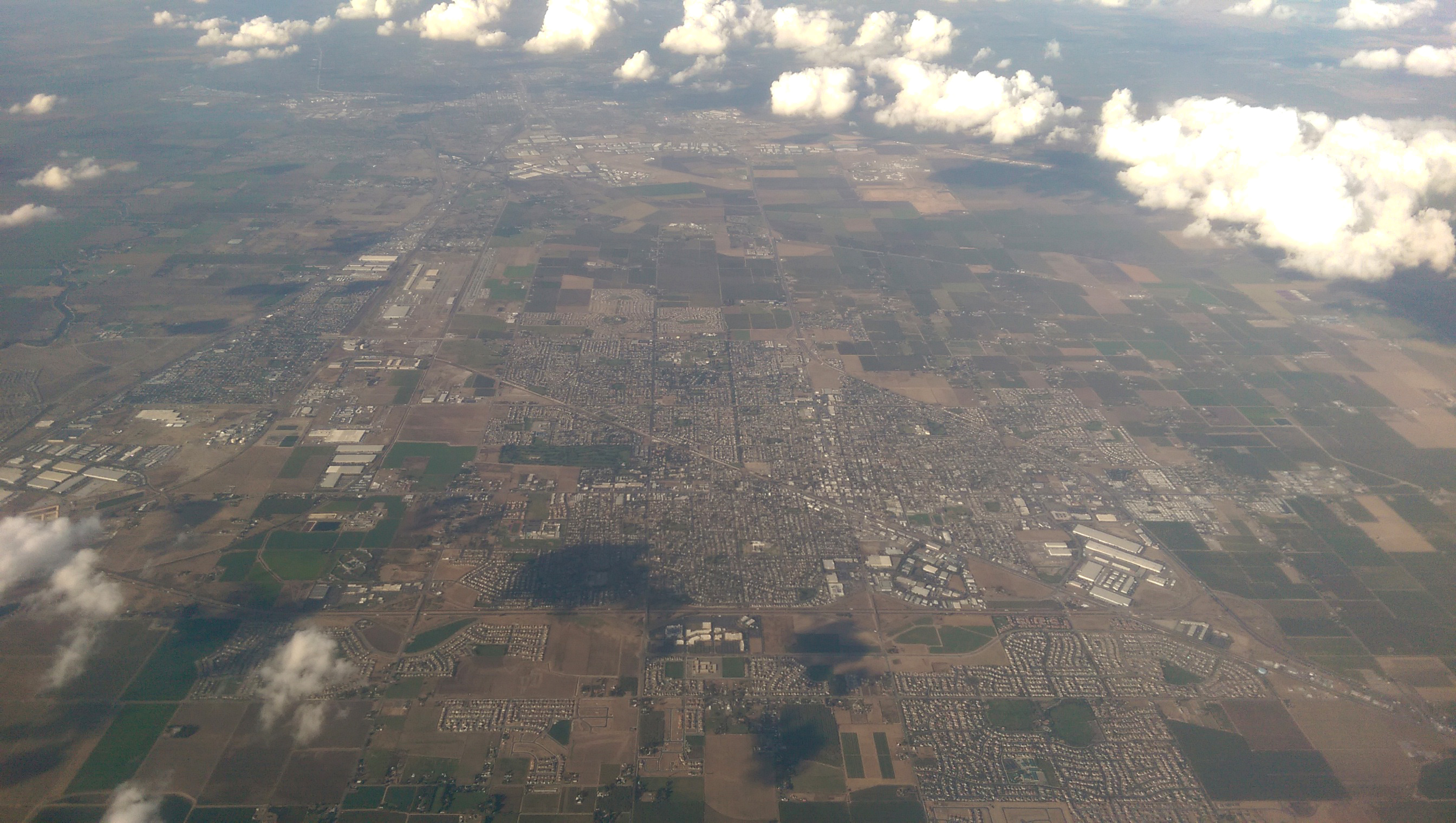 Lathrop and Manteca